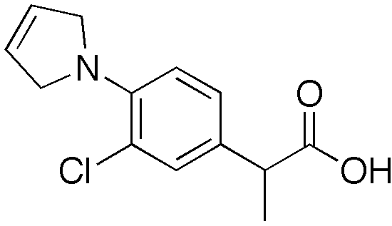 chemical structure of pirprofen